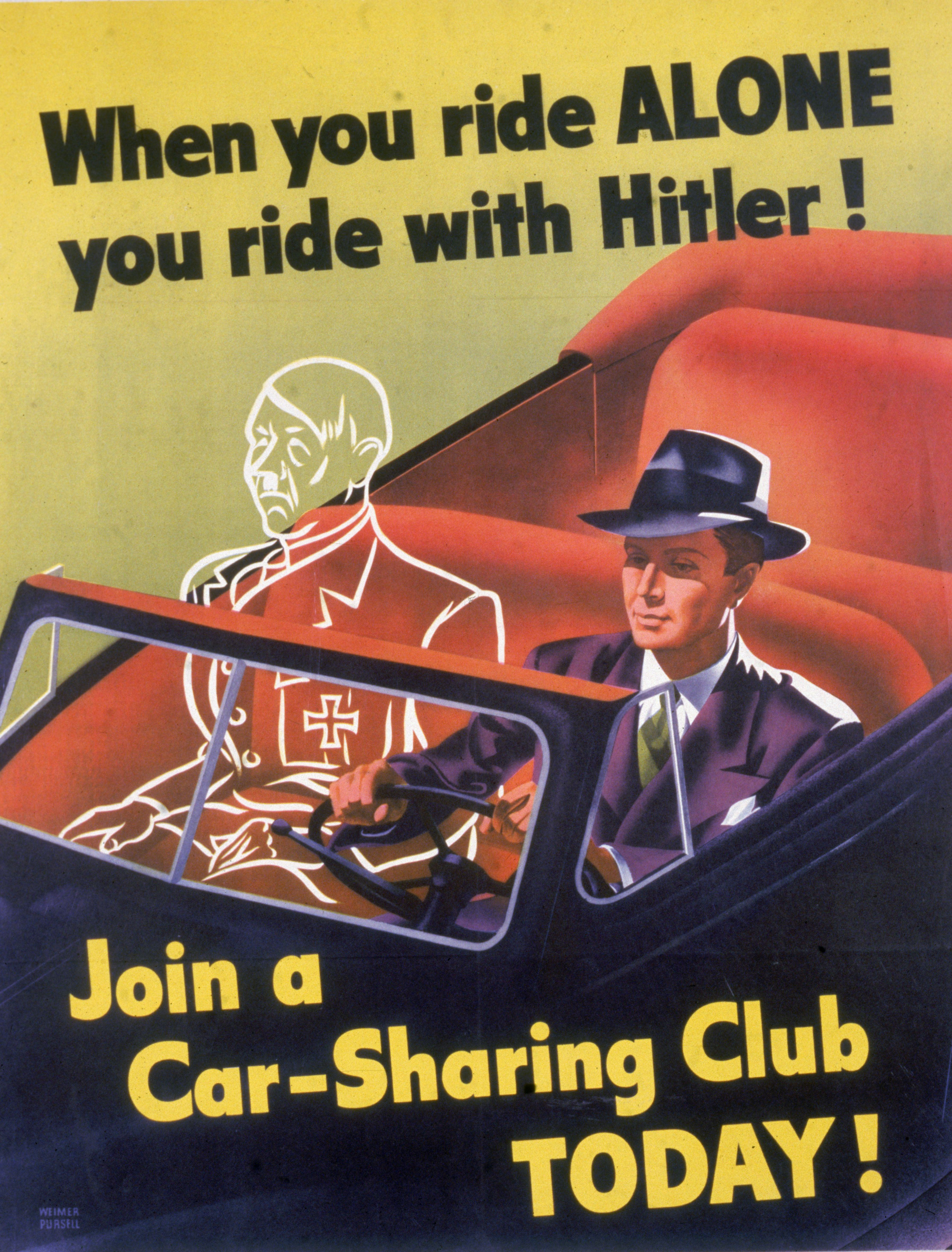 World War II image from the United States government. From : "When You Ride Alone You Ride With Hitler ! Join a car-sharing club TODAY !" by Weimer Pursell, 1943. Printed by the Government Printing Office for the Office of Price Administration. Source: NARA.